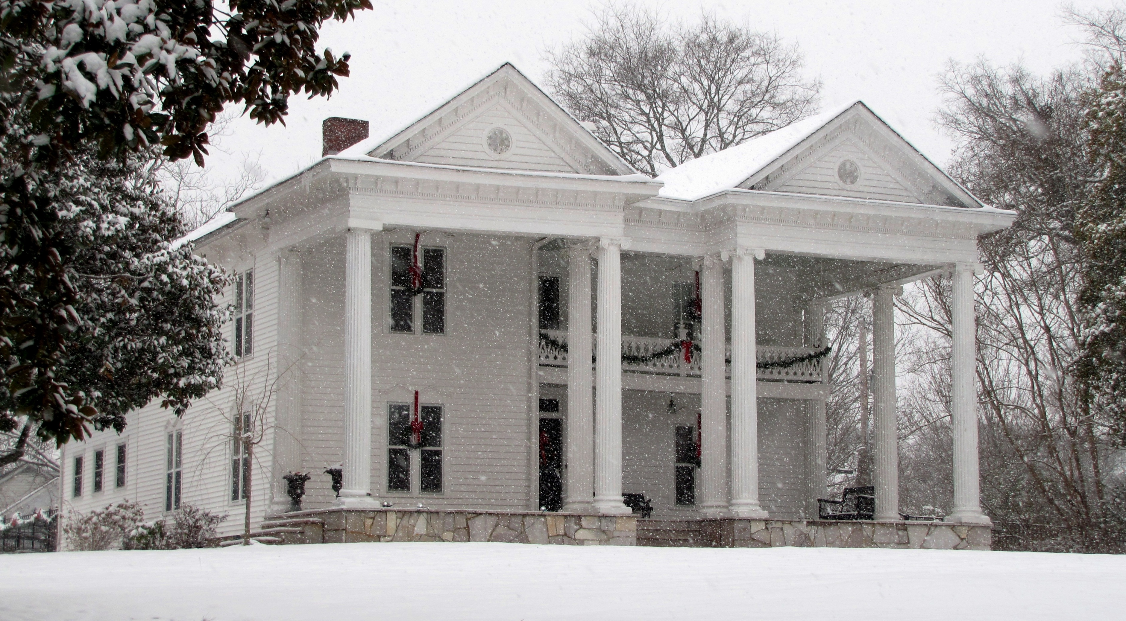 The Willard-Clark House in Maryville, Tennessee, USA. Built in the early 1900s, this house is now listed on the National Register of Historic Places. This house, not to be confused with the Willard House on the Maryville College campus, is located on Broadway, near the old Kay's Ice Cream store.